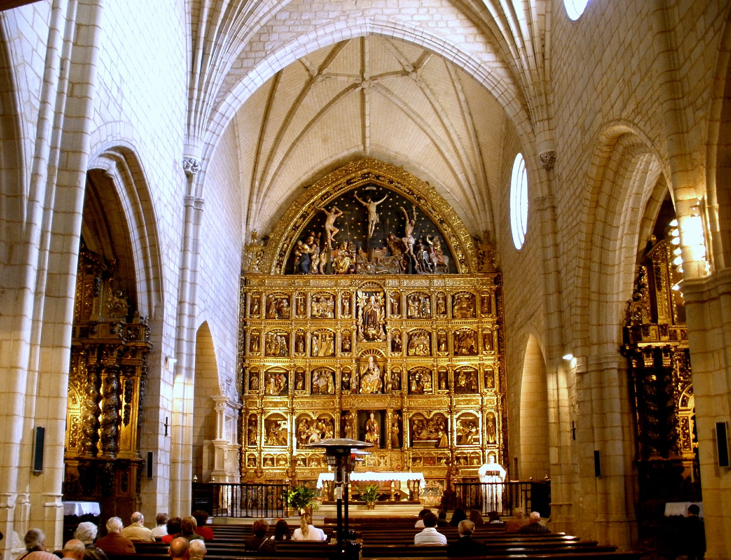 Iglesia de Nuestra Señora de la Asunción, La Puebla de Arganzón (Condado de Treviño, Burgos, Castilla y León, España)